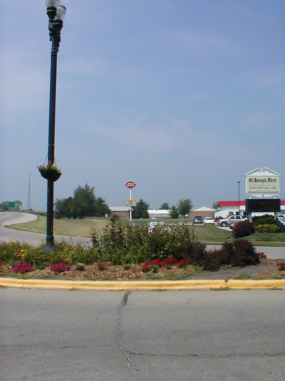 A distant view of the St. Joseph, Illinois Dairy Queen sign as well as the bank. Just south of I-74 exit 192.